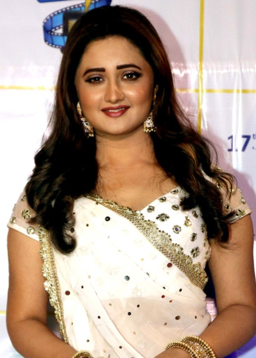 Rashami Desai attends the 17th Transmedia Gujarati Screen and Stage Awards in Mumbai.